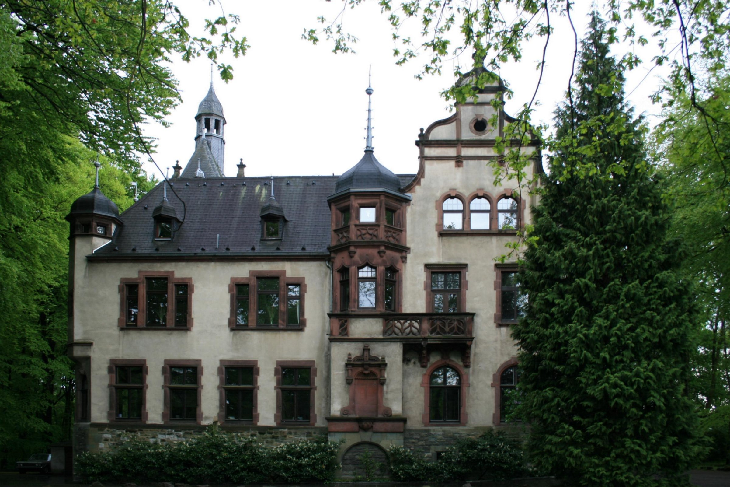 Cultural heritage monument No. R 020 in Mönchengladbach